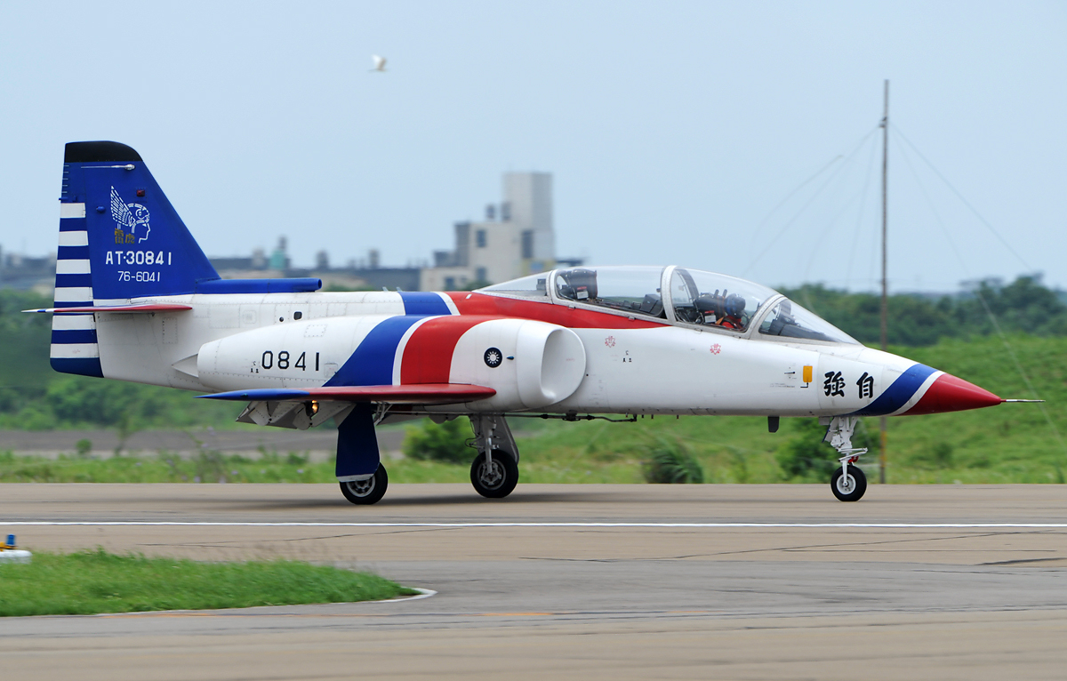 Republic of China Air Force AIDC AT-3